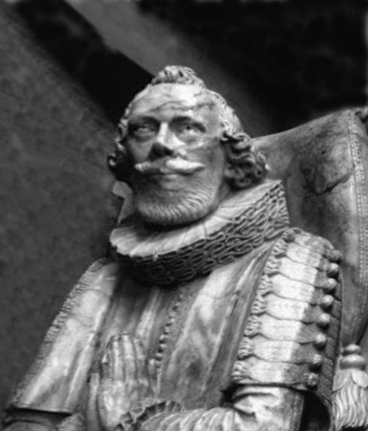 Thomas Ravenscroft (c. 1588 – 1635) was an English musician, theorist and editor, notable as a composer of rounds and catches, and especially for compiling collections of British folk music.